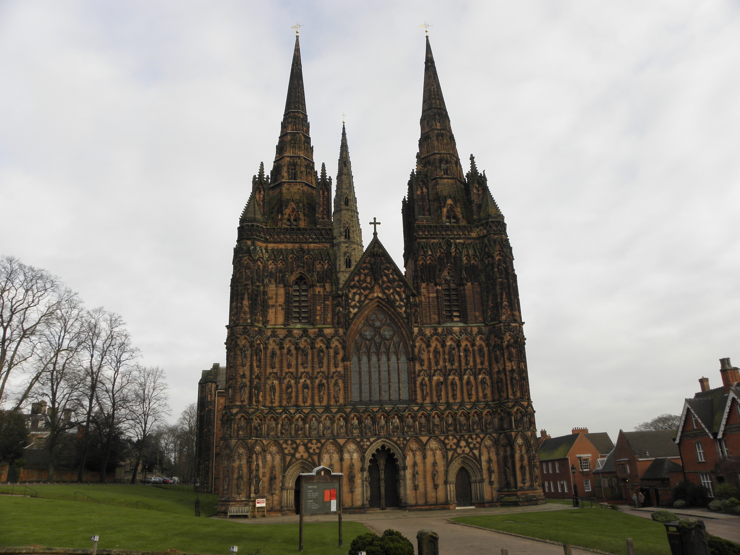 The Close and the Cathedral of Lichfield